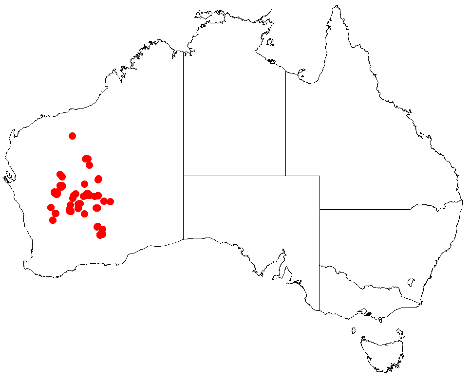 Lawrencia helmsii occurrence records downloaded from Australasian Virtual Herbarium, on 22 May 2018